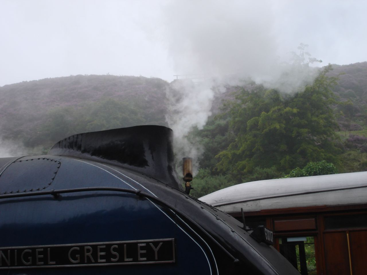 whistle blows